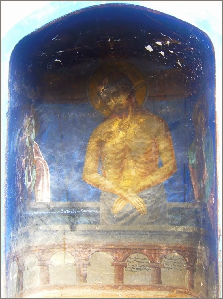 Fresco in the prothesis of Saint Christofer Church in Levki (Zhupanishta).